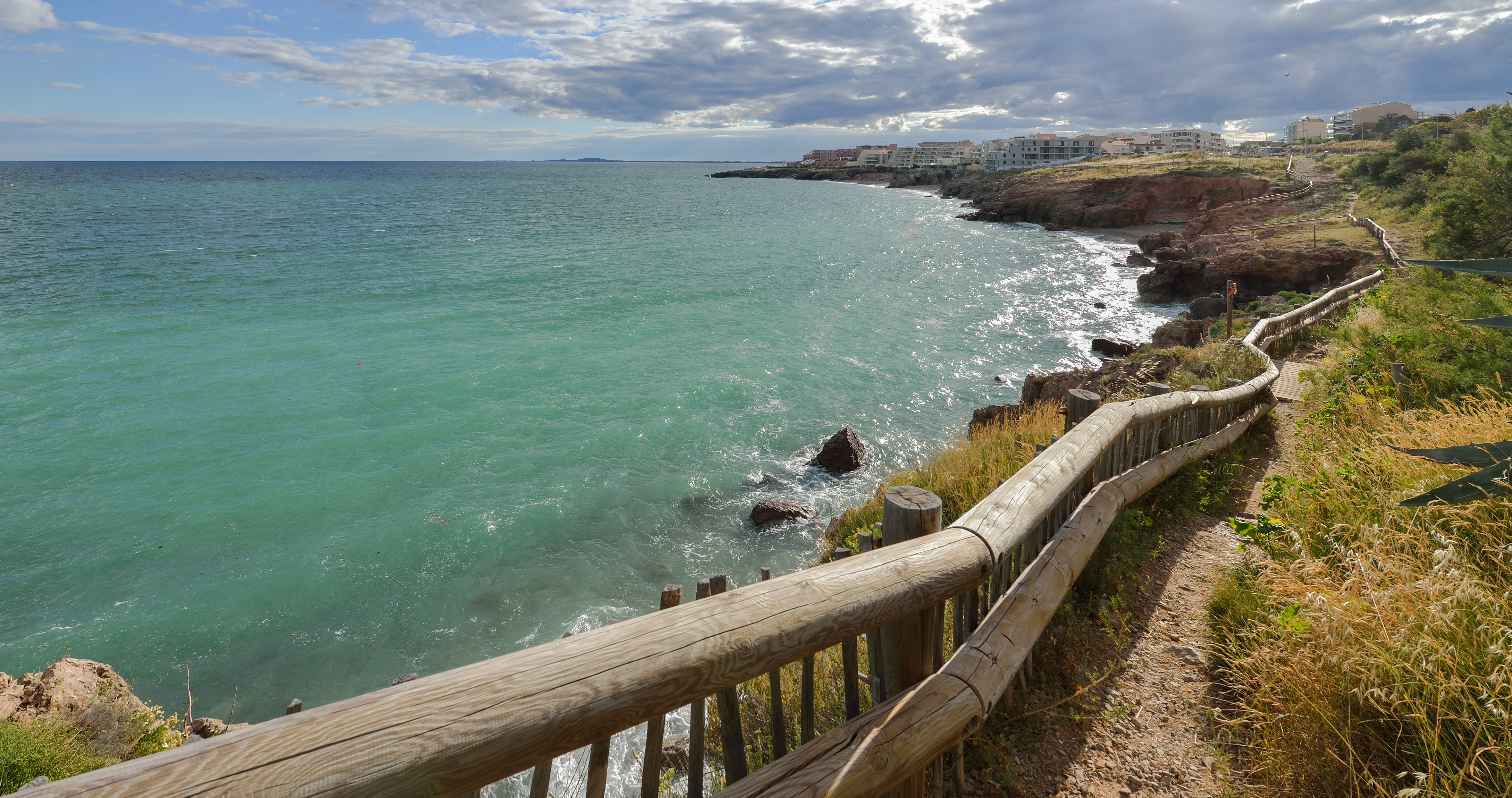 Crique de l'Anau, a cove at the neighbourhood of La Corniche. Sète, Hérault, France.